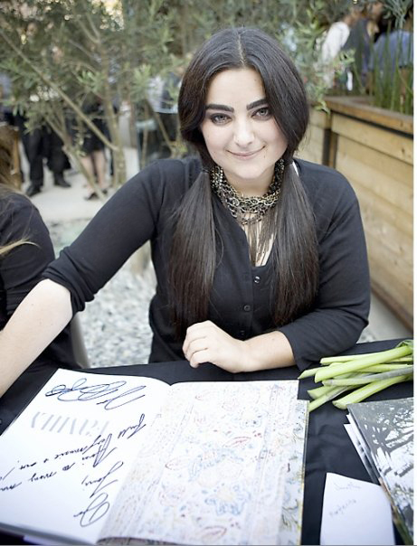 Photographer Lauren Dukoff at her book release signing/party in Los Angeles